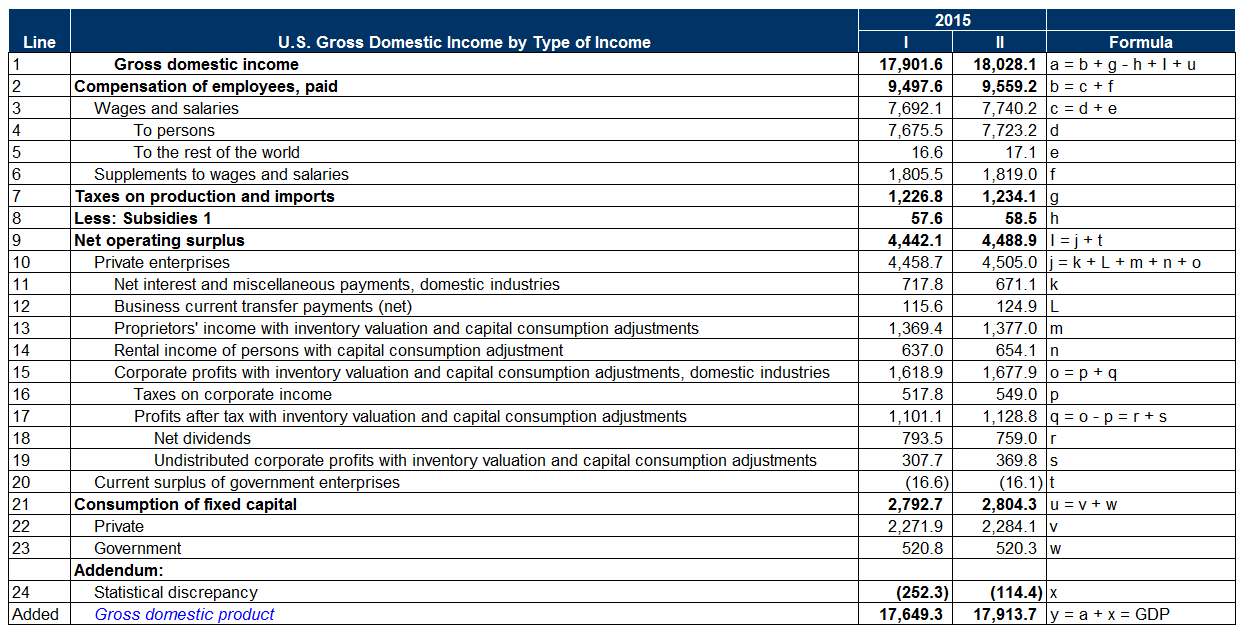 U.S. GDP table, computed on the income basis